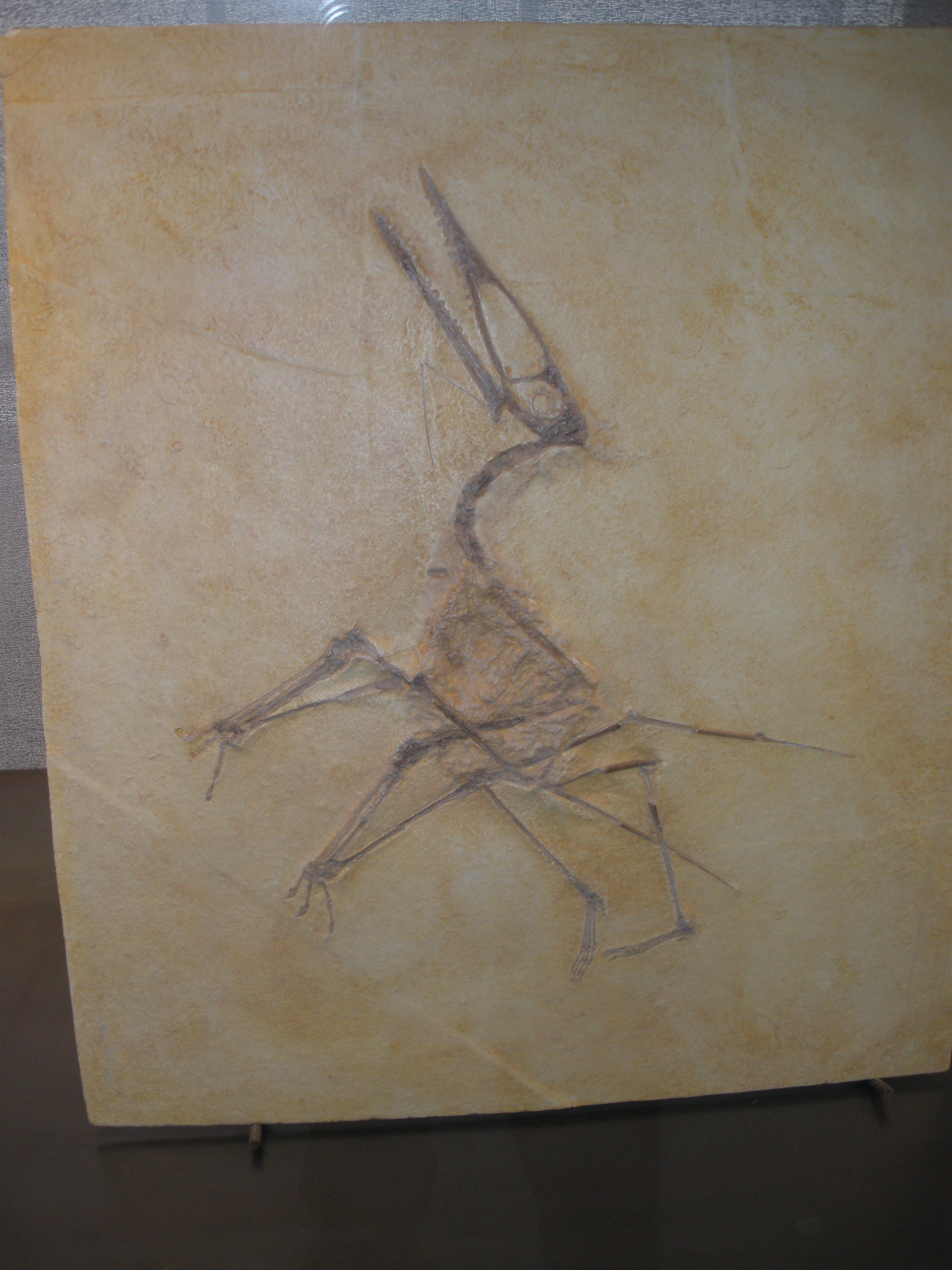 fossil of Germanodactylus cristatus, an extinct pterosaur